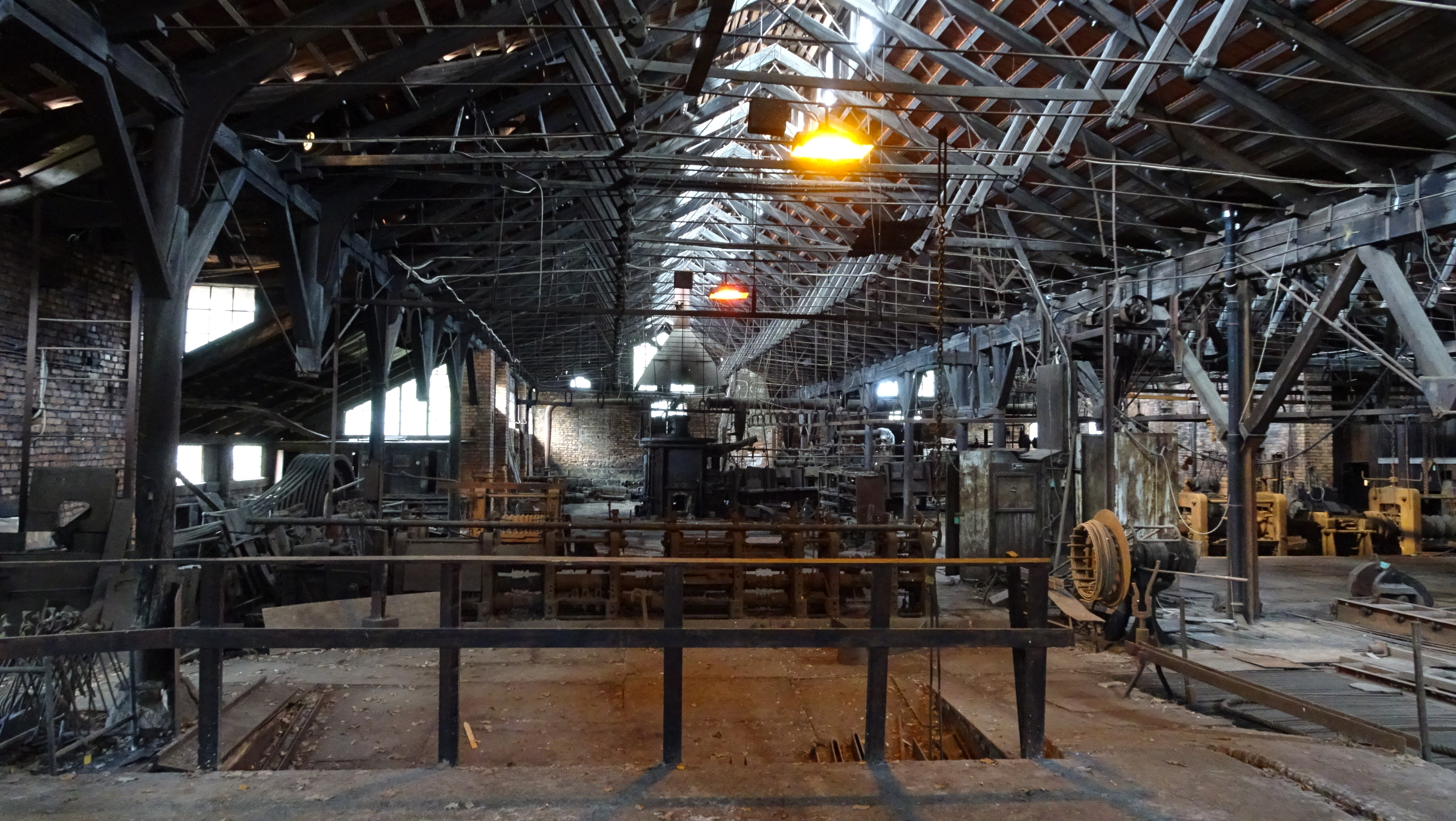 Interior of the Lancashire finery forge in Ramnäs, Sweden. In the middle is the rolling mill for fine wrought round iron bars, to the right is the rolling mill for big diameter wrought round iron bars and at the background the closed furnace for heat treatment before milling.